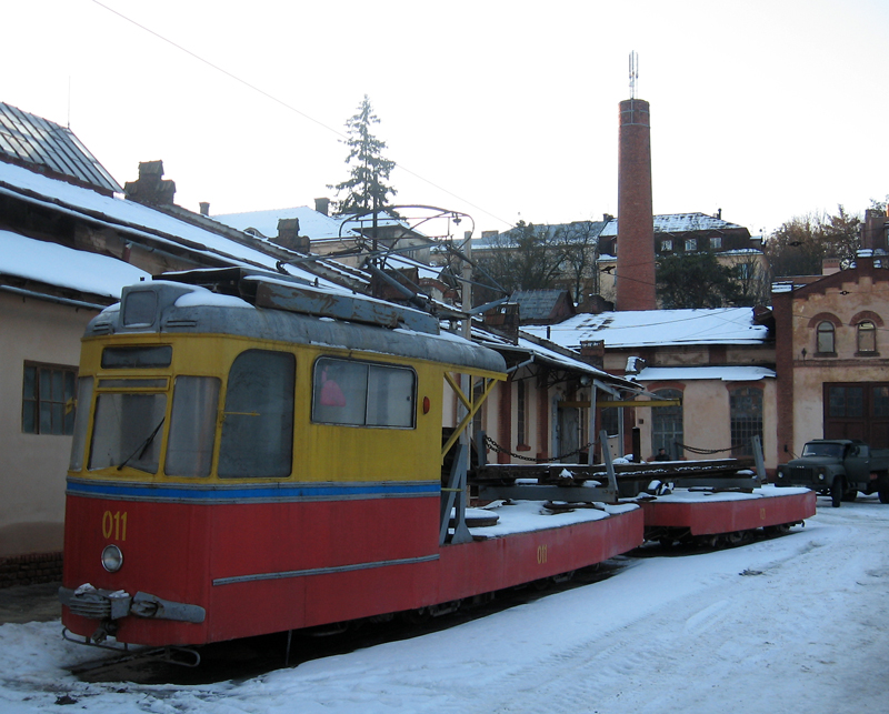 Freight tram in Lviv, Ukraine.